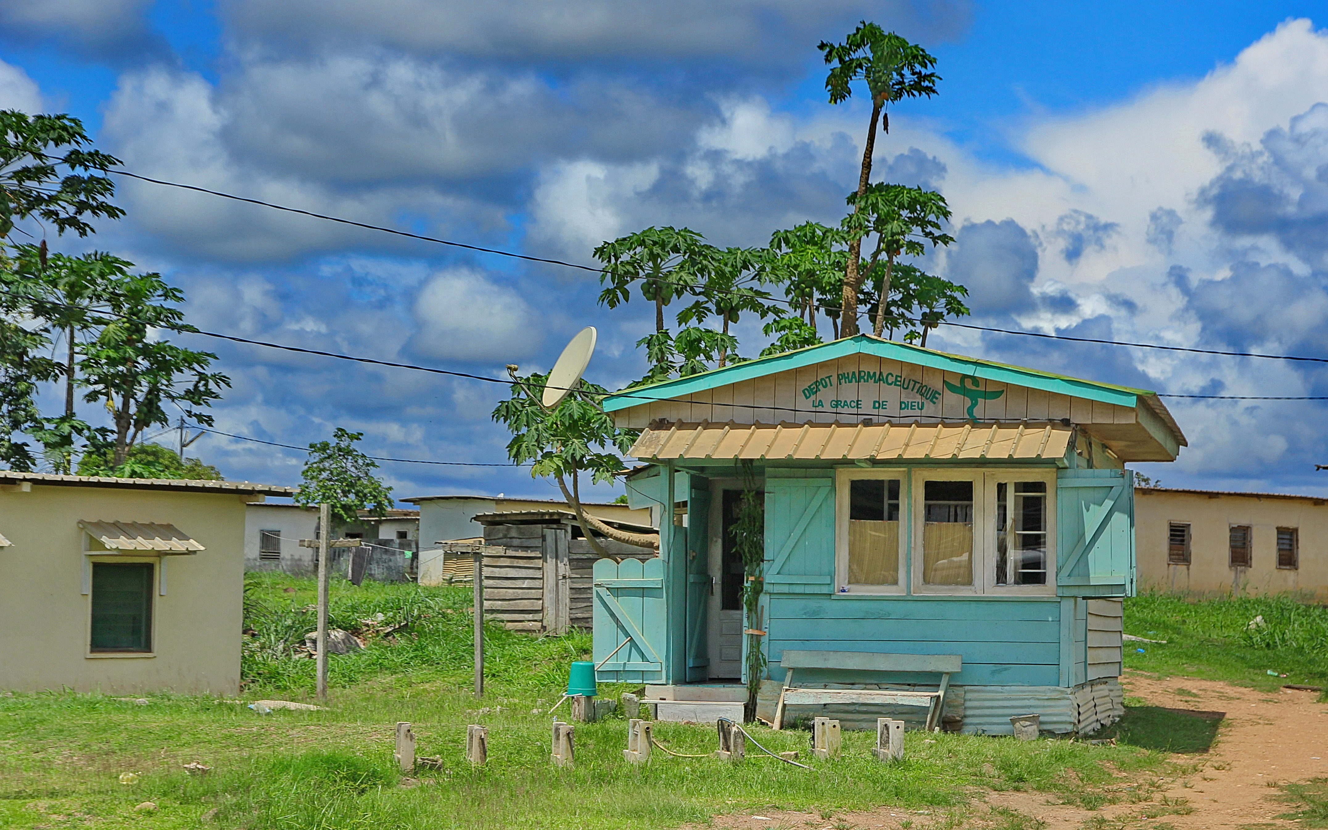 Gabon This is an image of food from Gabon